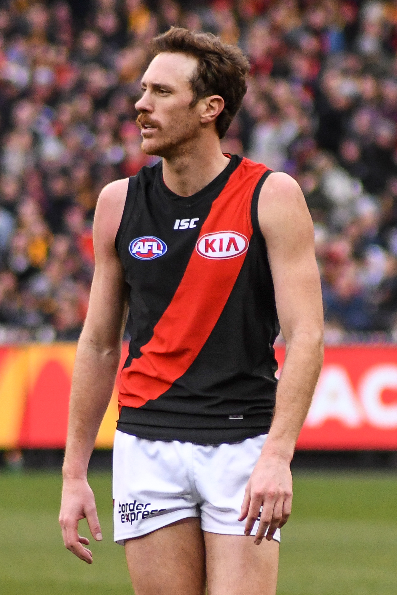 Mitch Brown of Essendon during the 2018 AFL round 20 match between Hawthorn and Essendon at the Melbourne Cricket Ground on Saturday, 4 August 2018 in Melbourne, Victoria.